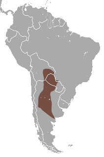 Screaming Hairy Armadillo (Chaetophractus vellerosus) range